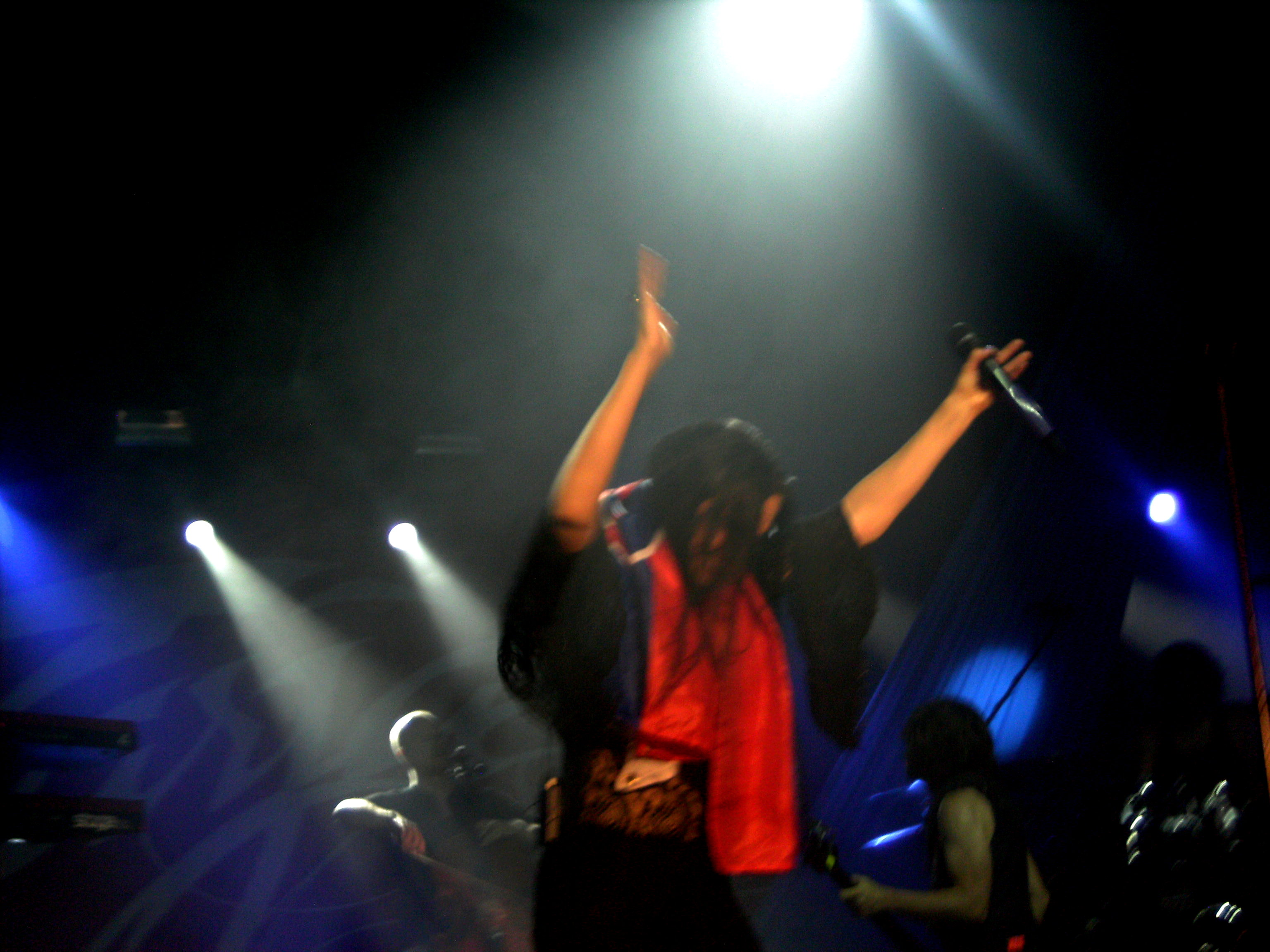 Tarja Turunen performing at the Refinery Gallery in Bratislava, Slovakia, on November 7, 2014.